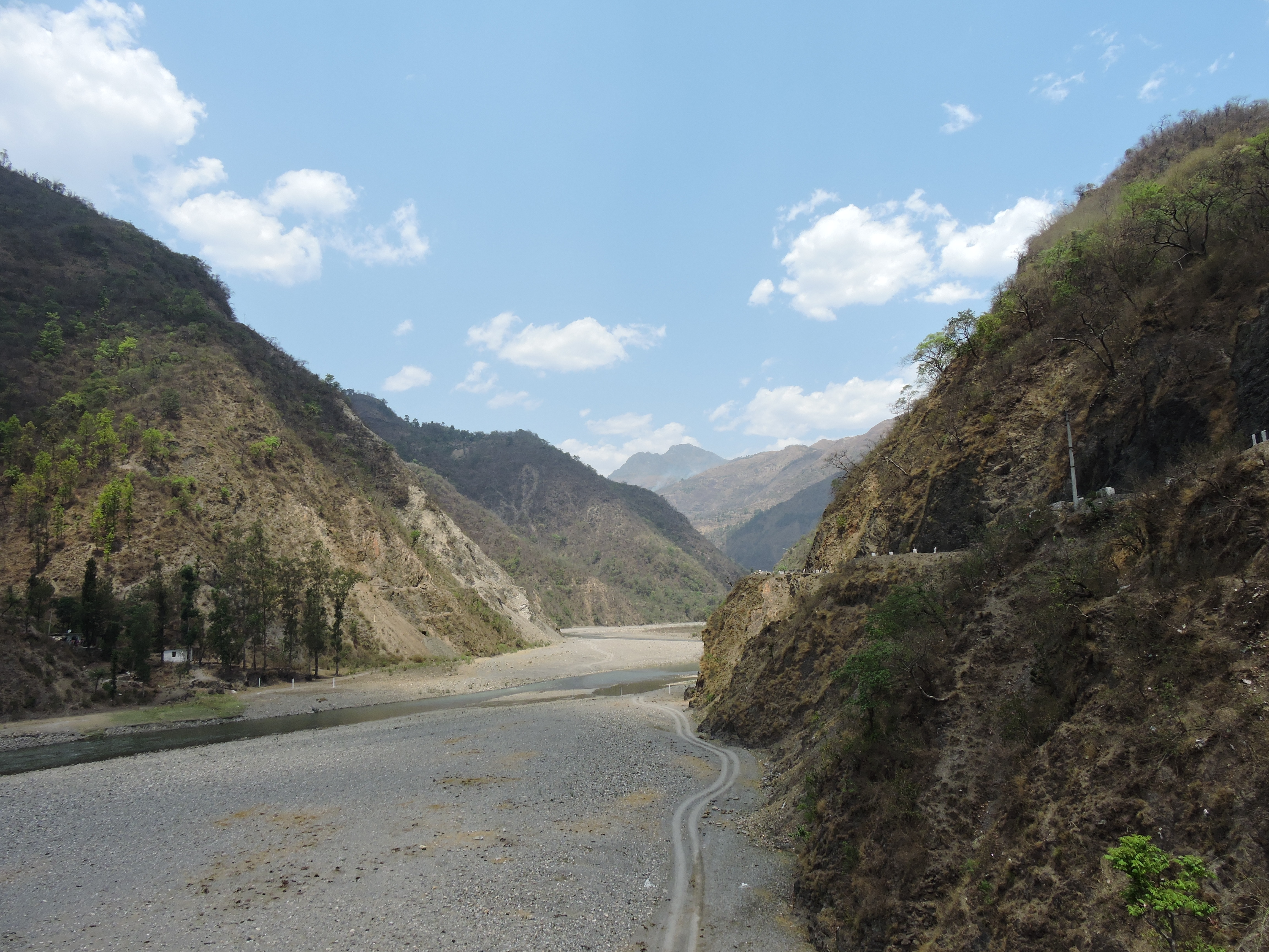 Giri River,near Renuka town,Himachal Pardesh